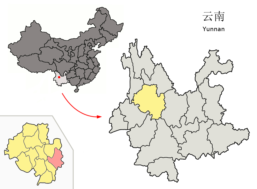 Location of Xiangyun County (pink) and Dali Prefecture (yellow) within Yunnan province of China Map drawn in september 2007 using various sources, mainly : Yunnan province administrative regions GIS data: 1:1M, County level, 1990 Yunnan Counties map from